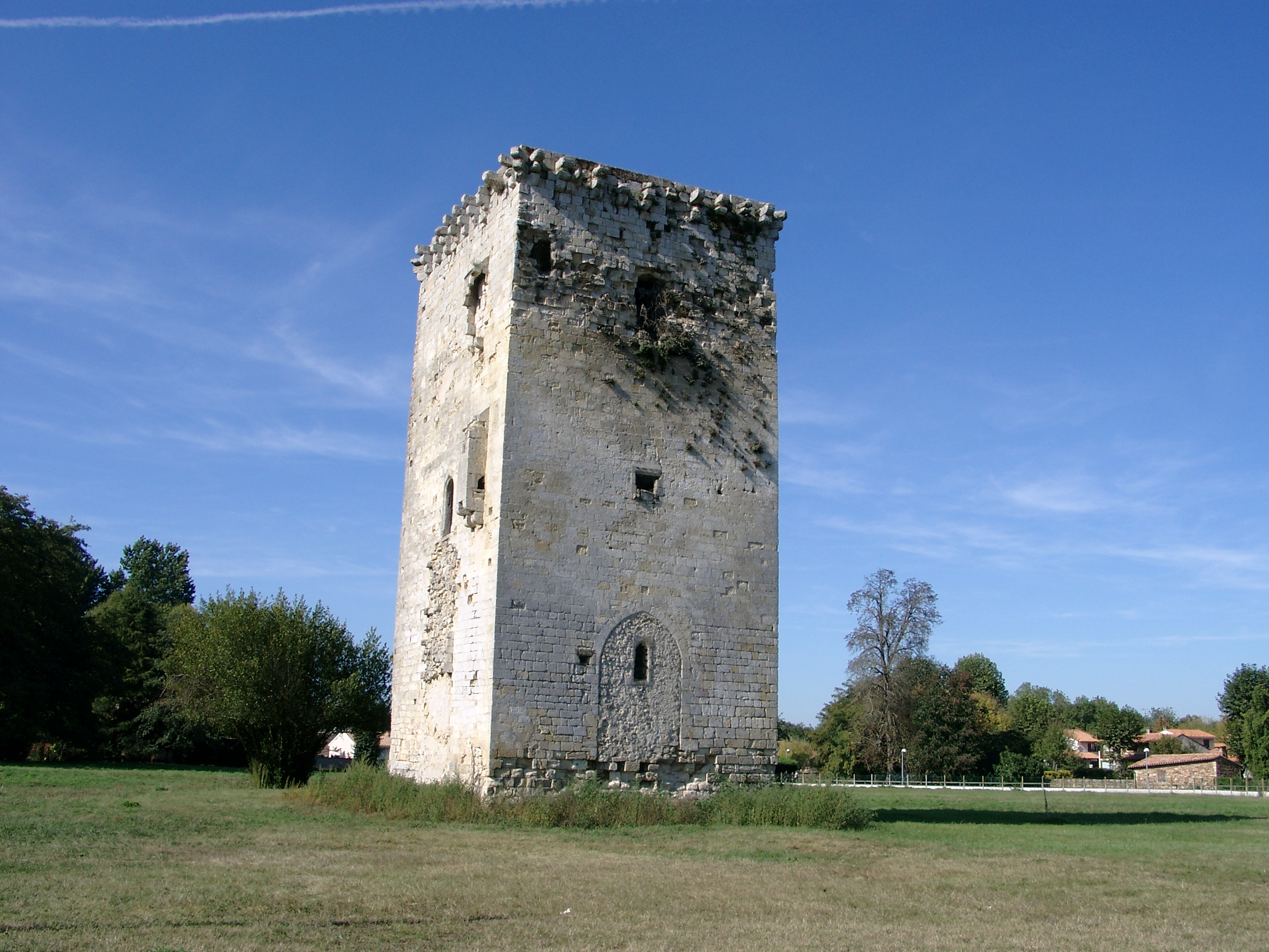 Dungeon of Veyrines, in Mérignac (France 33), mid 14th century.